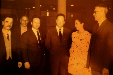 Eli davis uzi narkis yigal alon